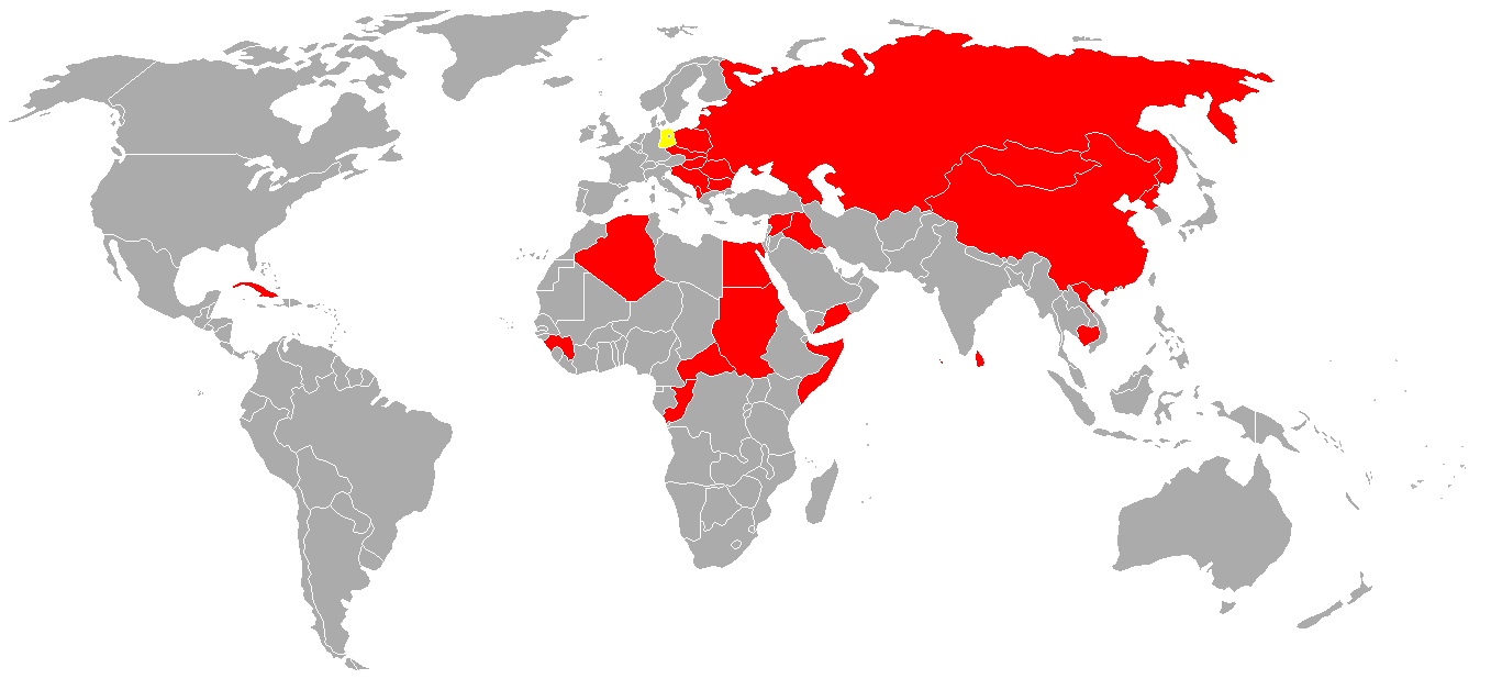 Recognition of the GDR by 31 december 1970